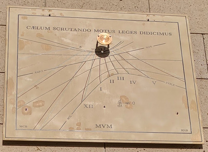 Closer view of Ronald N. Bracewell's sundial at Stanford, in the sun, about 1 PM, a few weeks after the winter solstice.